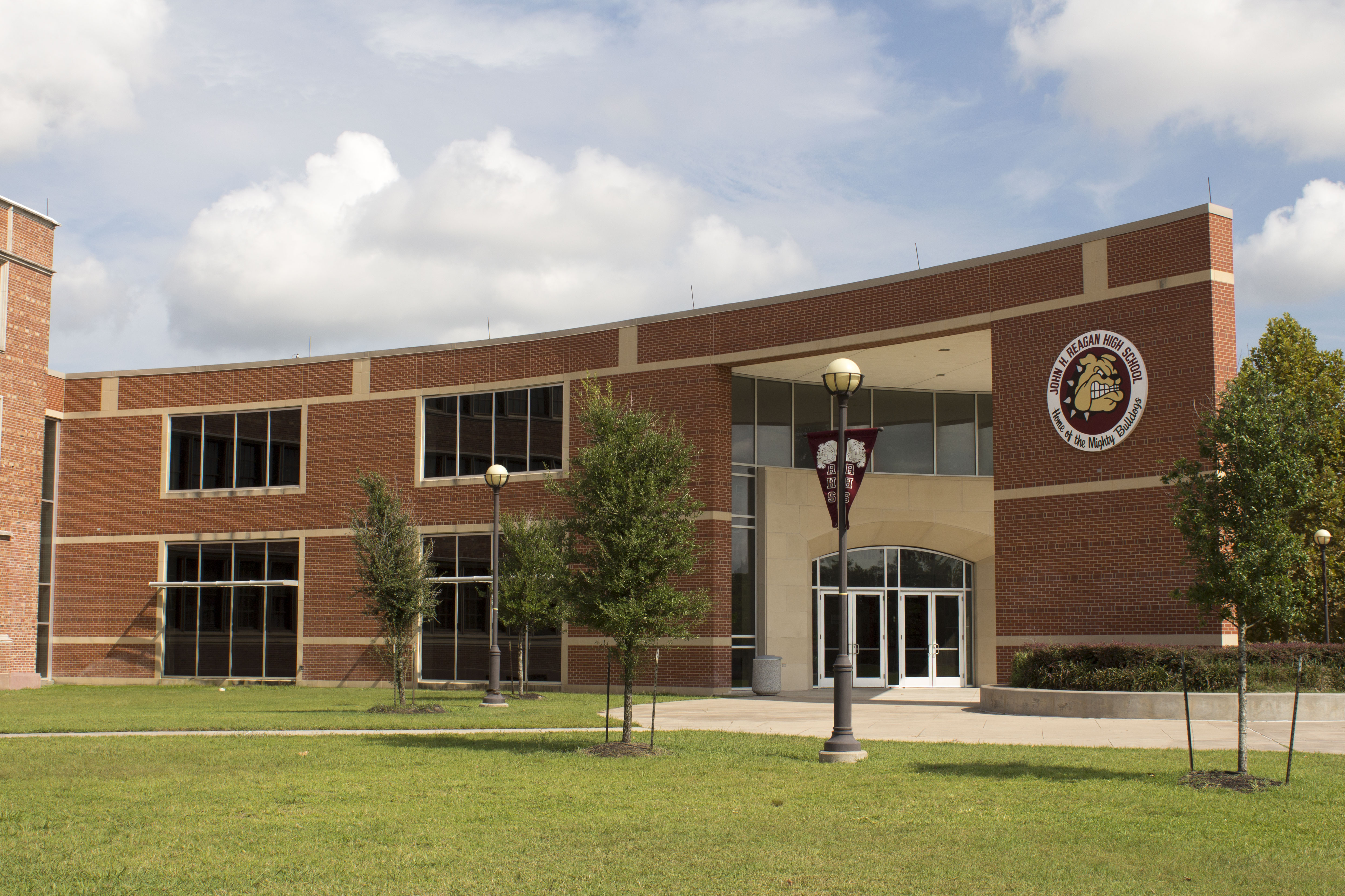 The John H. Reagan High School, located at 413 E 13th St, Houston, TX 77008 in the Houston Heights. This is a view of the entranceway facing the athletic field.